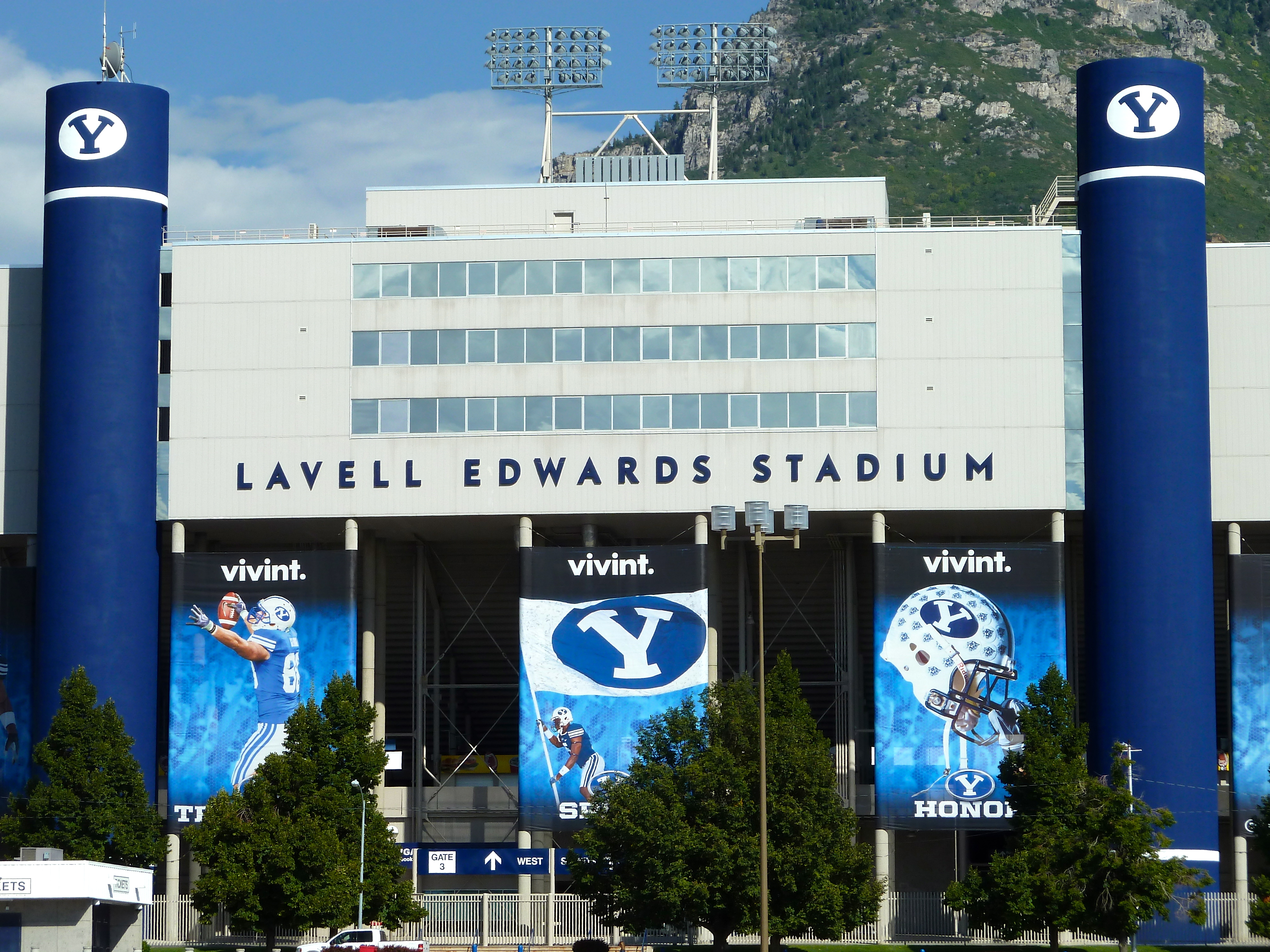 Towers and Front Exterior of Lavell Edwards Stadium BYU, Provo Utah,Football